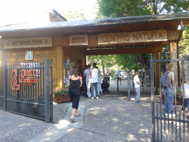 Entrance of natural museum and park visitor center, Pescasseroli, Abruzzo, Italy